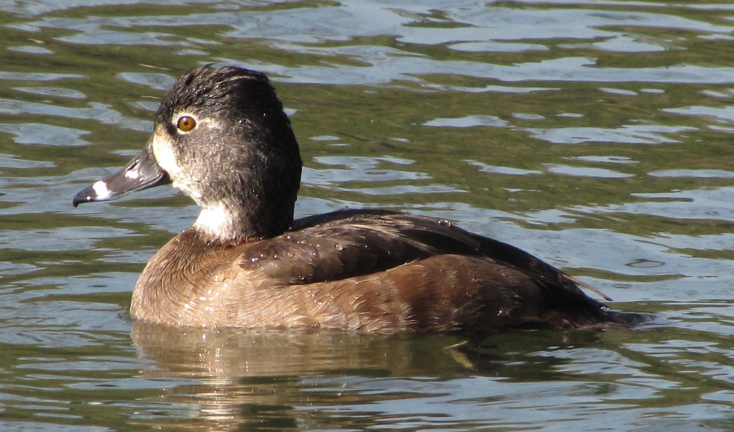 Ring-necked duck female (Aythya collaris) Location: Ralph B. Clark Regional Park, Buena Park, CA, USA